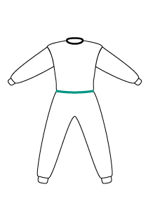 Locking clothing, with the zipper on the waist. Such clothing is often used by the elderly or those with special needs.